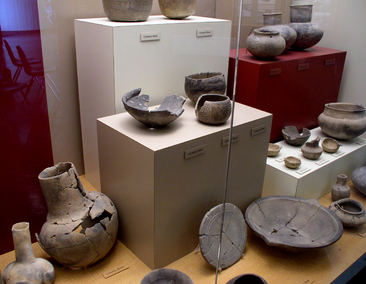 Ceramics from the Winterville Site